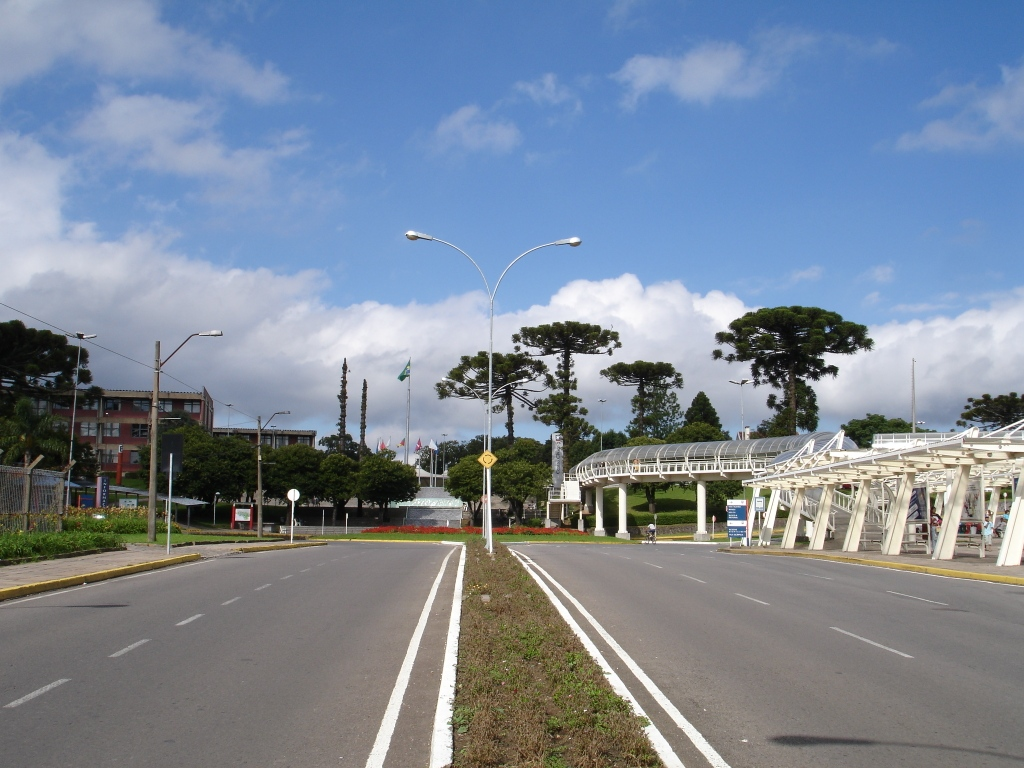 Daniel Rossi